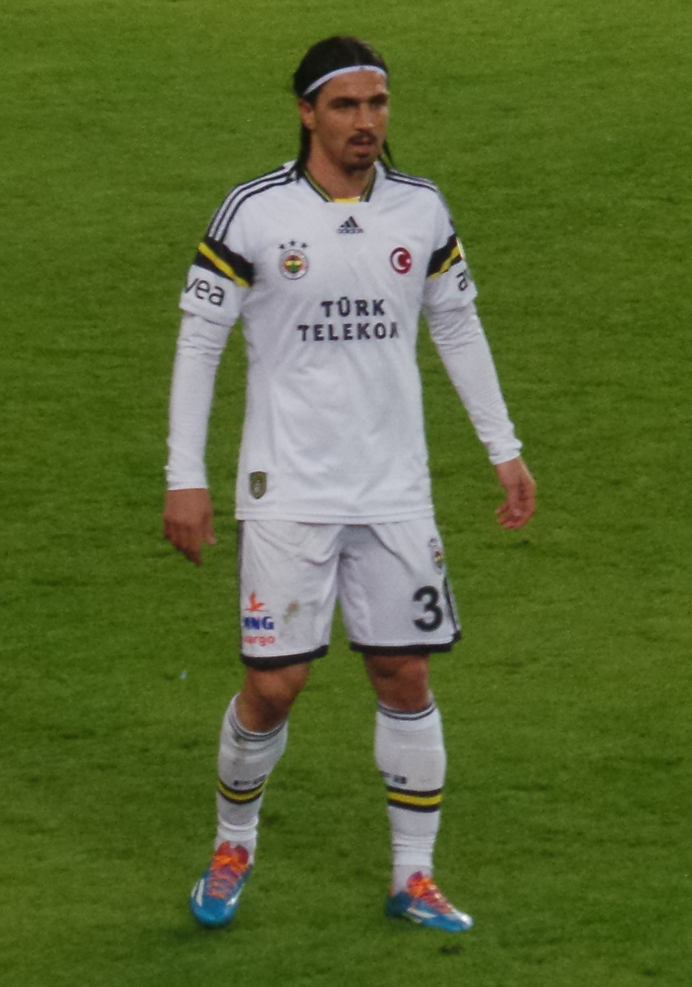 Mehmet Topuz vs Fethiyespor